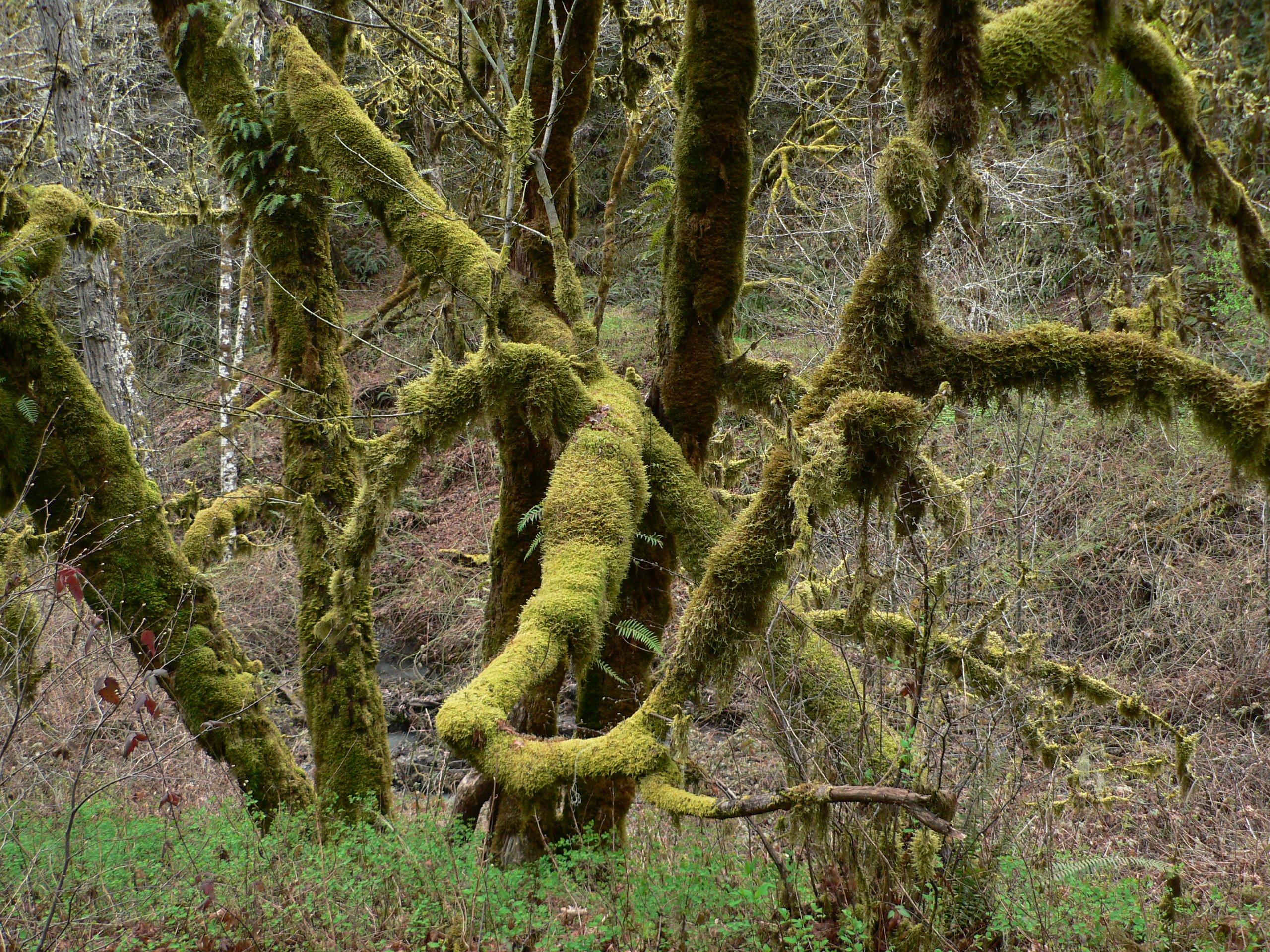 Acer macrophyllum Description: Bigleaf Maple (Acer macrophyllum) festooned with moss Viewpoint location: Mulkey Creek Trail, Bald Hill Trail System, Corvallis, Oregon, USA. Lat/Long: 44.5777°N, 123.3492°W (WGS84/NAD83) USGS Corvallis Quad [1] Viewpoint elevation: 540 feet View direction: South Date and time: 2006.04.02 15:06:05 PDT Camera: Panasonic Lumix DMC FZ5 Photographer: Walter Siegmund ©2006 Walter Siegmund